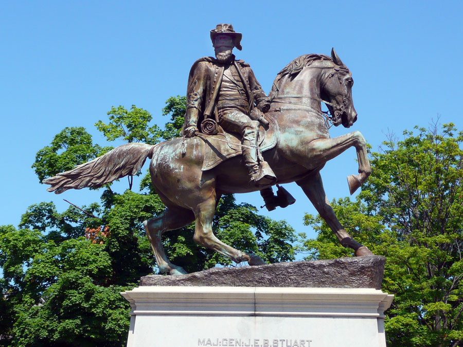 Photograph of Monument Ave., Richmond, VA, statue of J.E.B. Stuart.